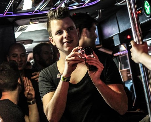 Rinze Hostee of Sick Individuals live at MOX Revealed Bus Party.